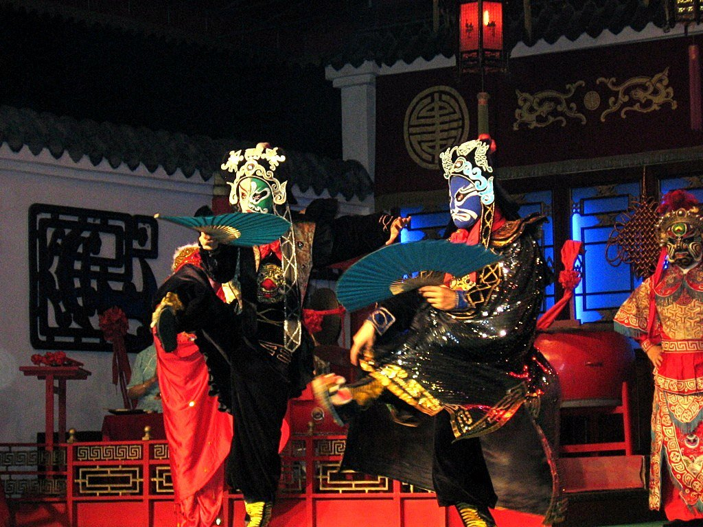 Sichuan opera in Chengdu. Changing mask.